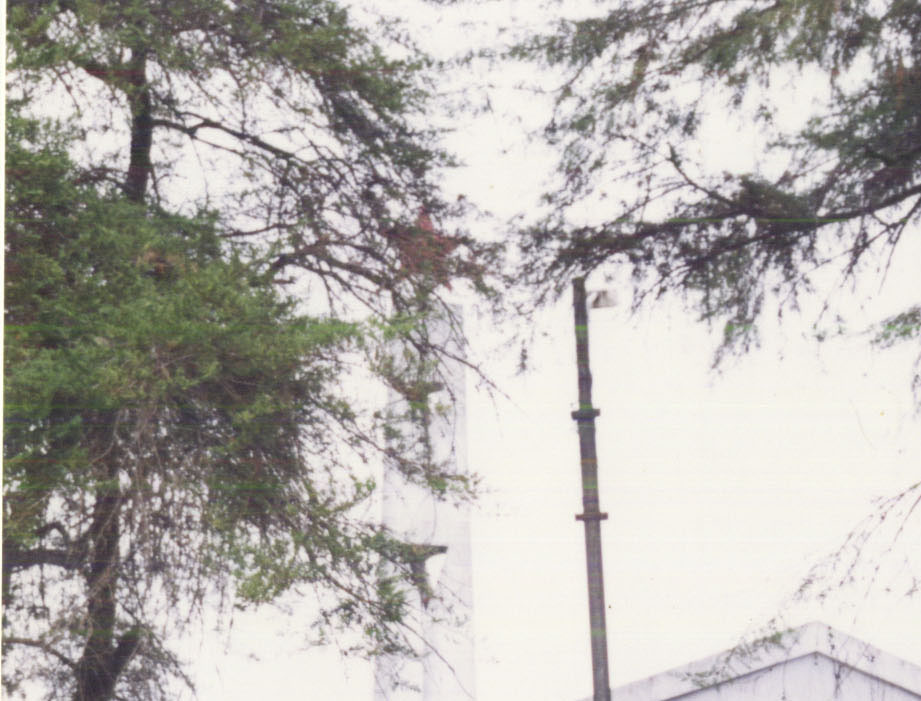 University of Da Lat